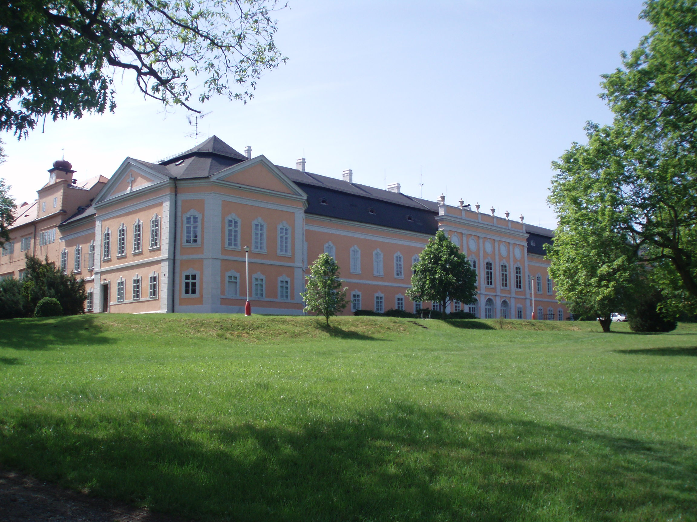 The corner of Petrohrad castle